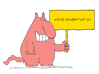 A file showing a typical example of troll behaviour ("trolling").